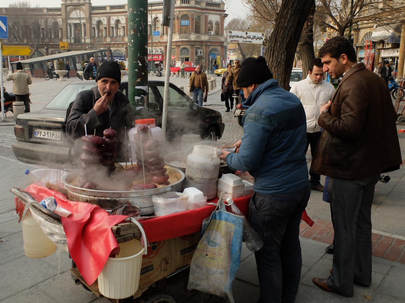 Street food in Tehran: boiled beetrot